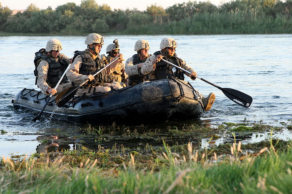 BAGHDAD, Iraq – Marines with Bravo Company, 1st Combat Engineer Battalion, Regimental Combat Team 2, paddle toward the shore of an island on the Euphrates River during an “island hopping” operation here.